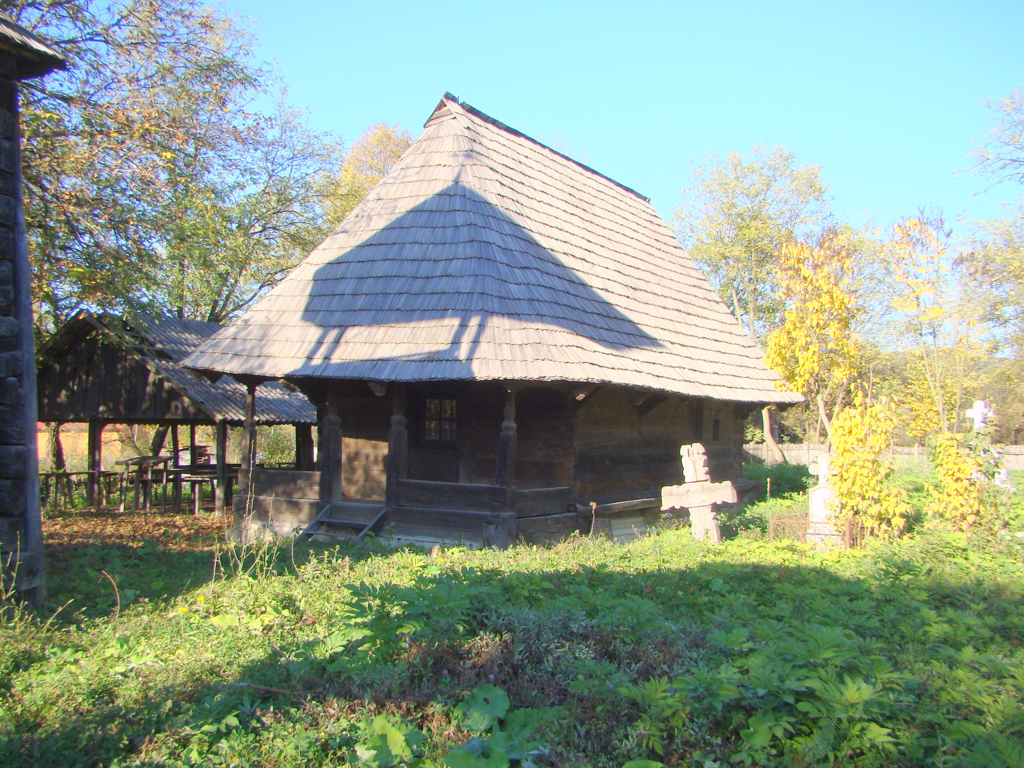 Wooden church in Sura, Gorj county, Romania